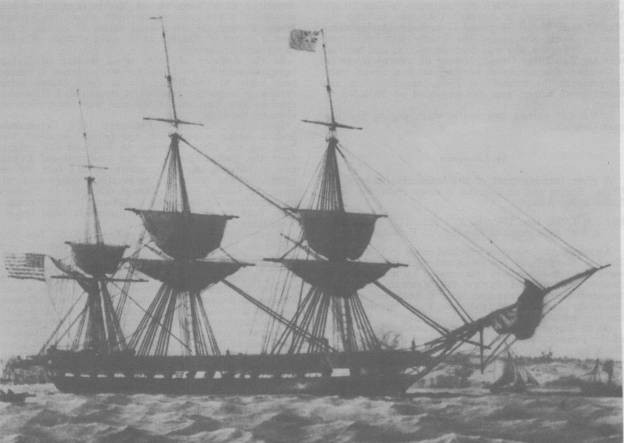 USS St. Lawrence (1848)